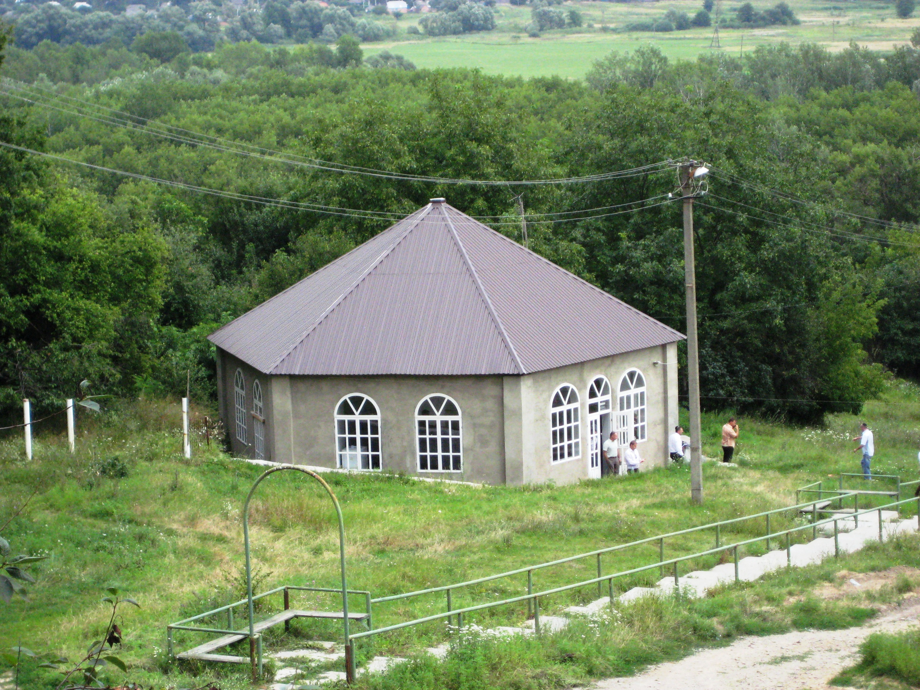 Hadiach (Ukraine)